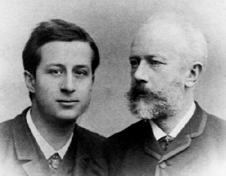 Photo of Alexander Ilyich Siloti (left) and Pyotr Ilyich Tchaikovsky (right).